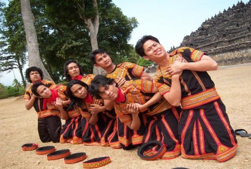 Saman dance, from Aceh, here performed in Borobudur (compare left of File:Borobudur-Nothwest-view.jpg)